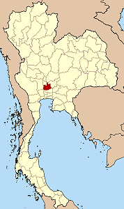 Map of Thailand hightlighting Ayutthaya province